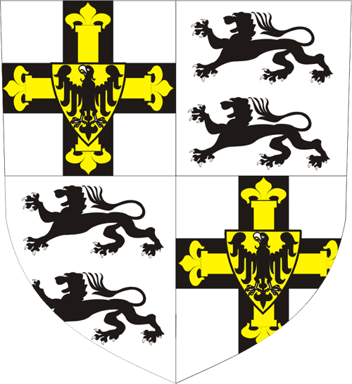 Teutonic Order - Coat of Arms of the Grandmaster Heinrich und Gottfried von Hohenlohe